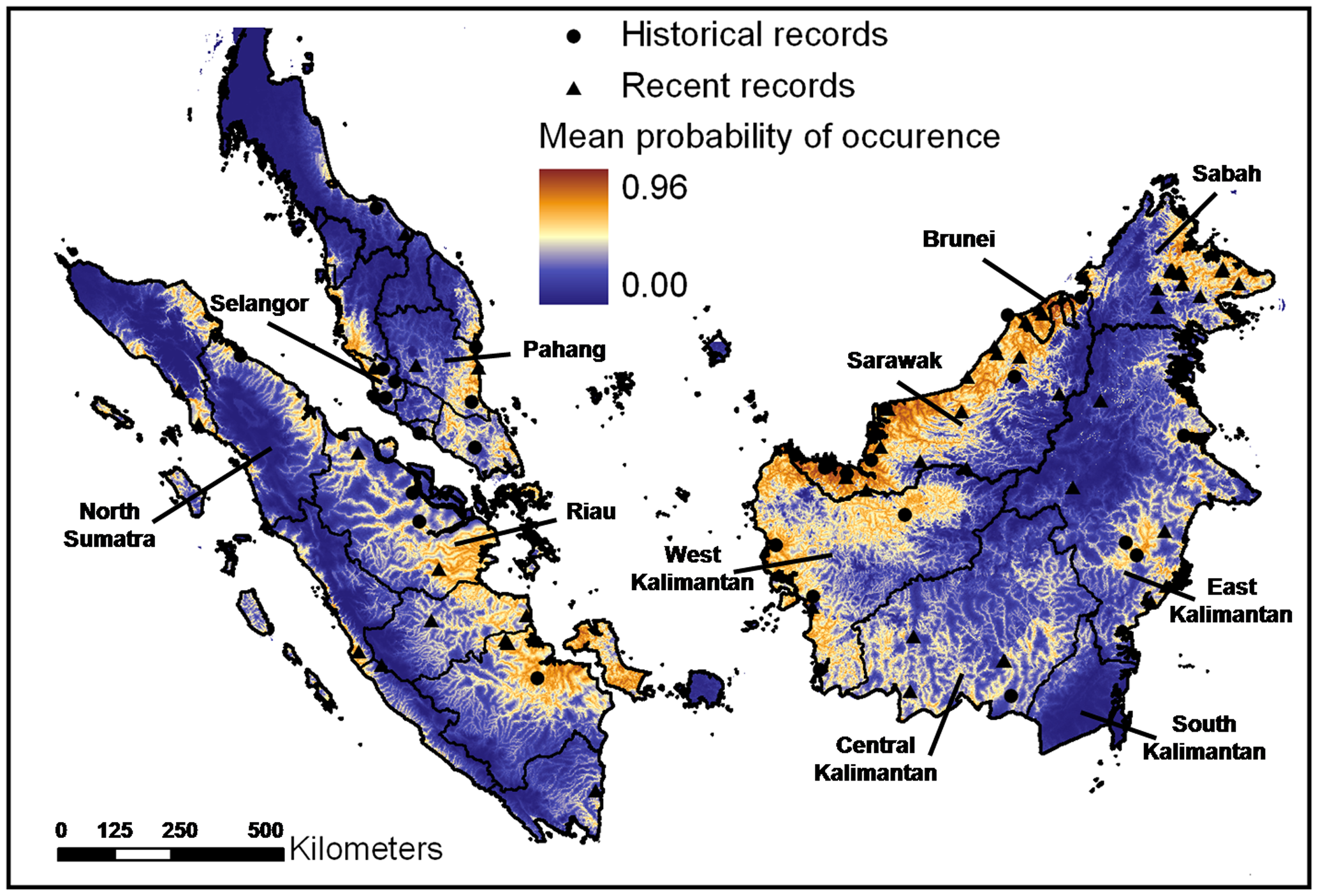 Proposed original distribution of the Flat-headed cat (Prionailurus planiceps)